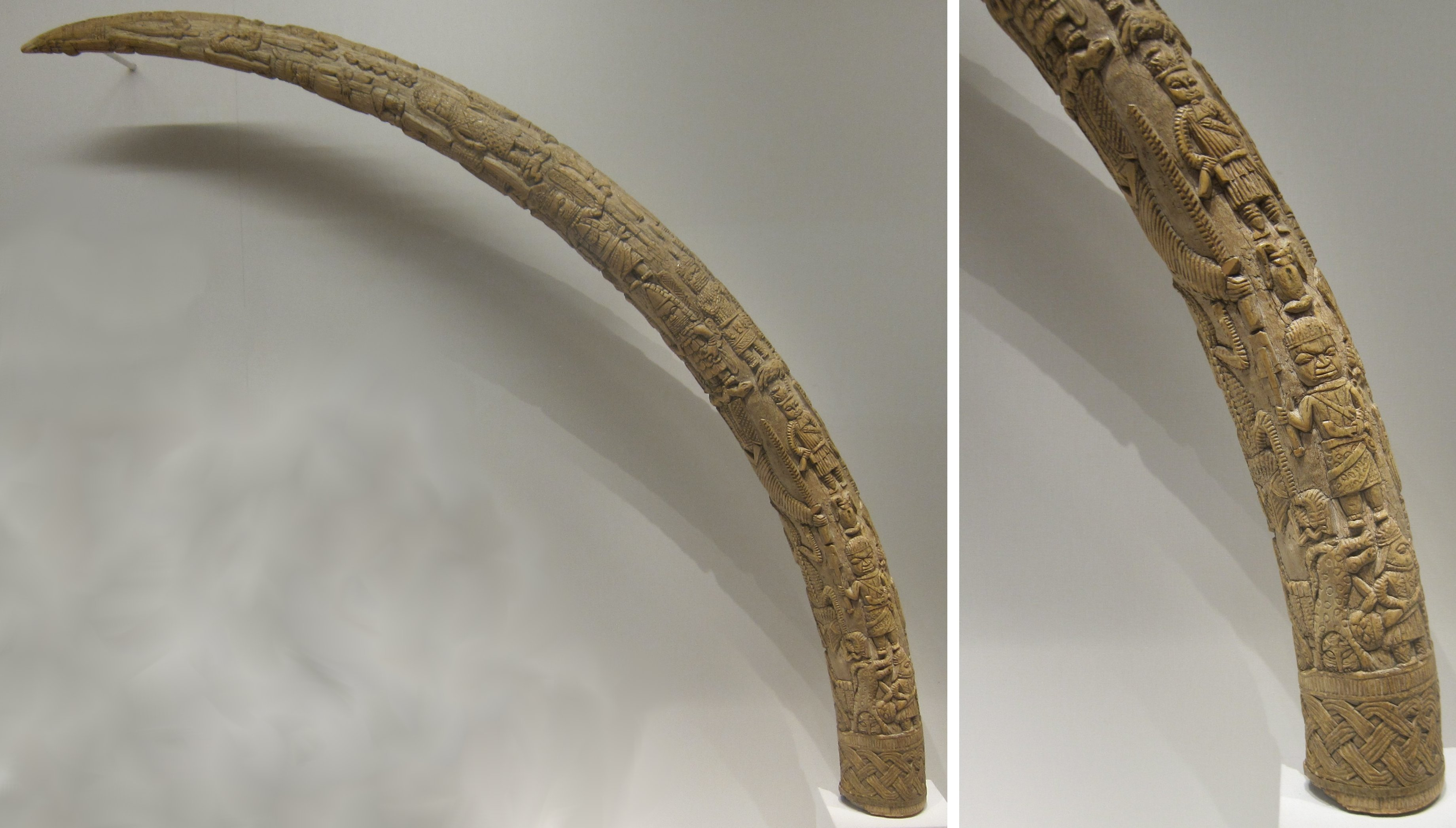 Carved tusk, c. 1820, ivory, Guinea Coast, Nigeria, Benin Kingdom, Edo people, Cleveland Museum of Art